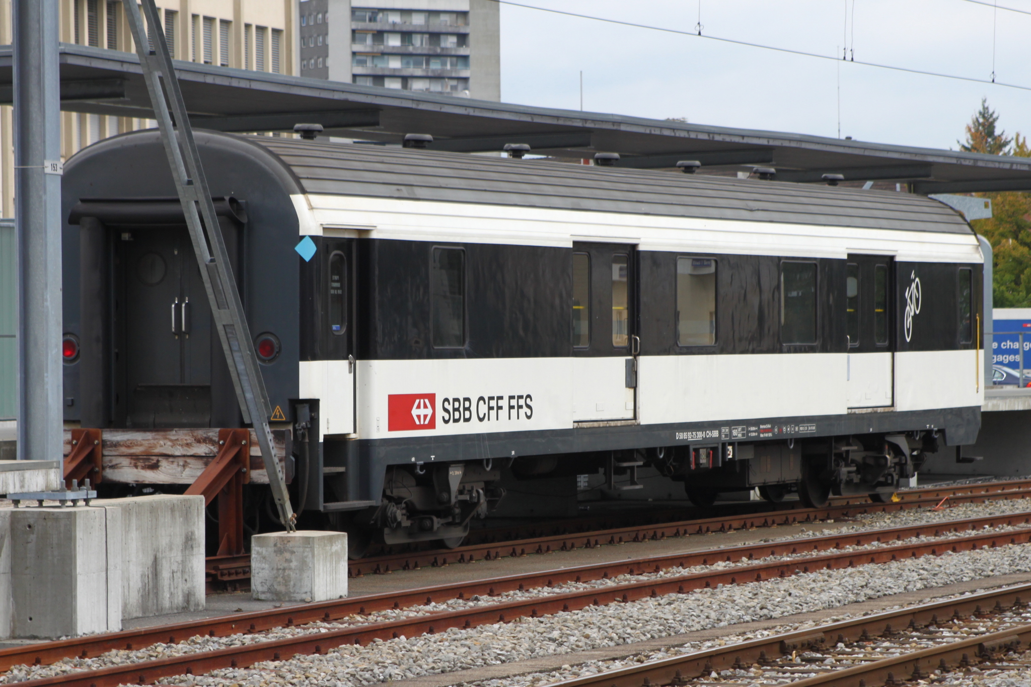 SBB CFF D 50 85 92-75 300-0 at Biel/Bienne train station.